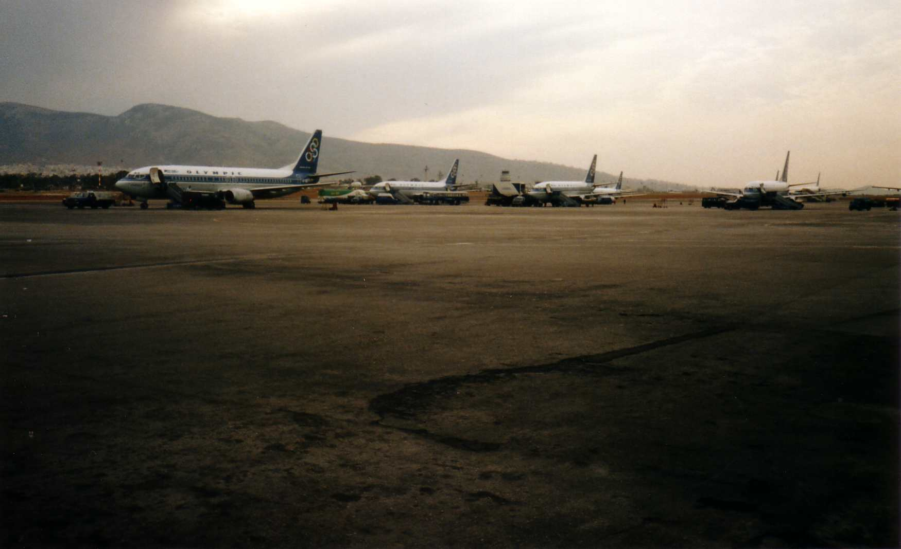 Olympics Airways Boeing 737's at the now closed Hellinikon (old Athens International) airport